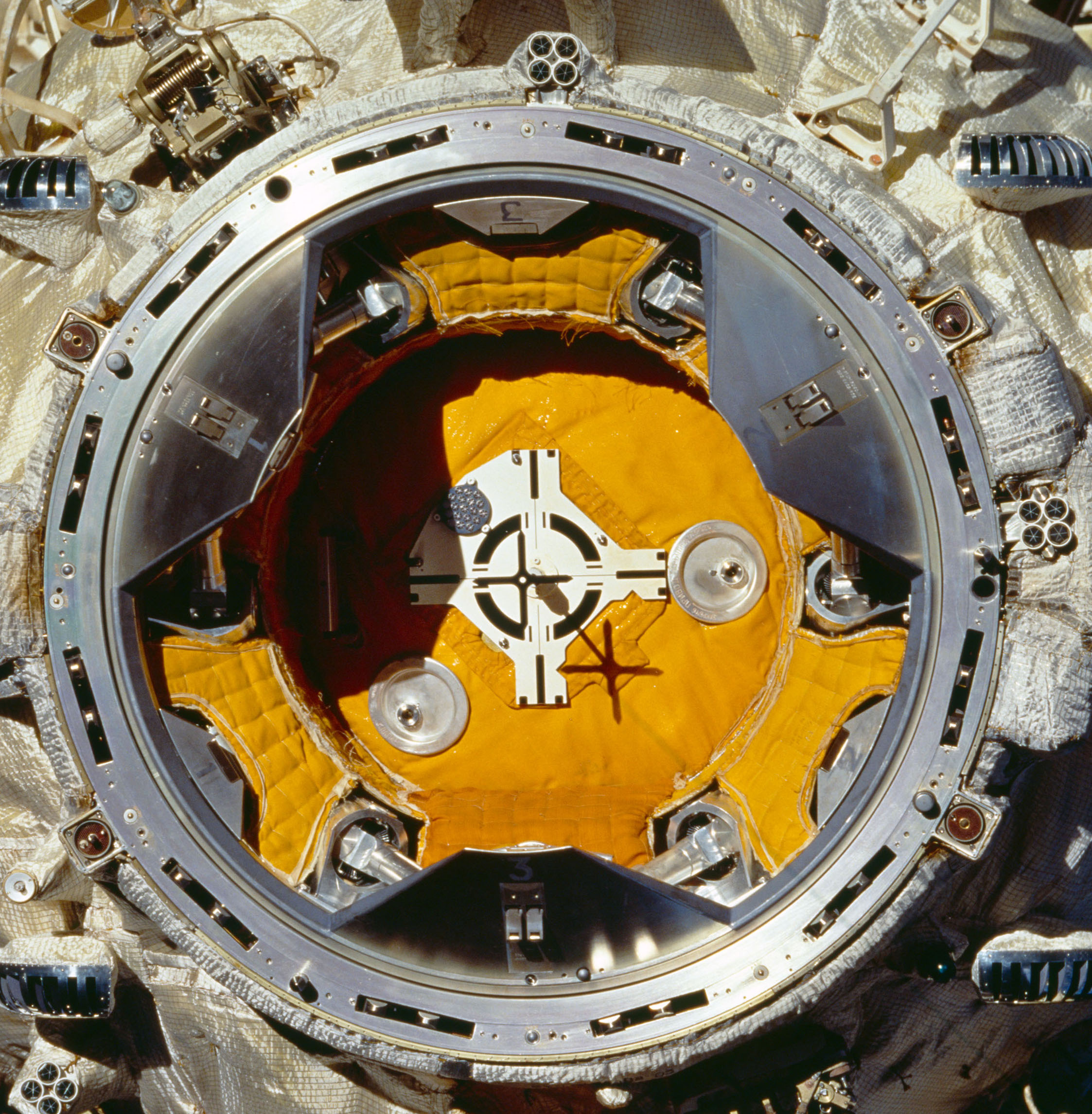 Close-up scene of the Kristall forward docking mechanism on the Mir space station. Photo taken by one of the STS-63 crew members using a handheld Hasselblad camera during close proximity operations between the Space Shuttle Discovery and the Mir.